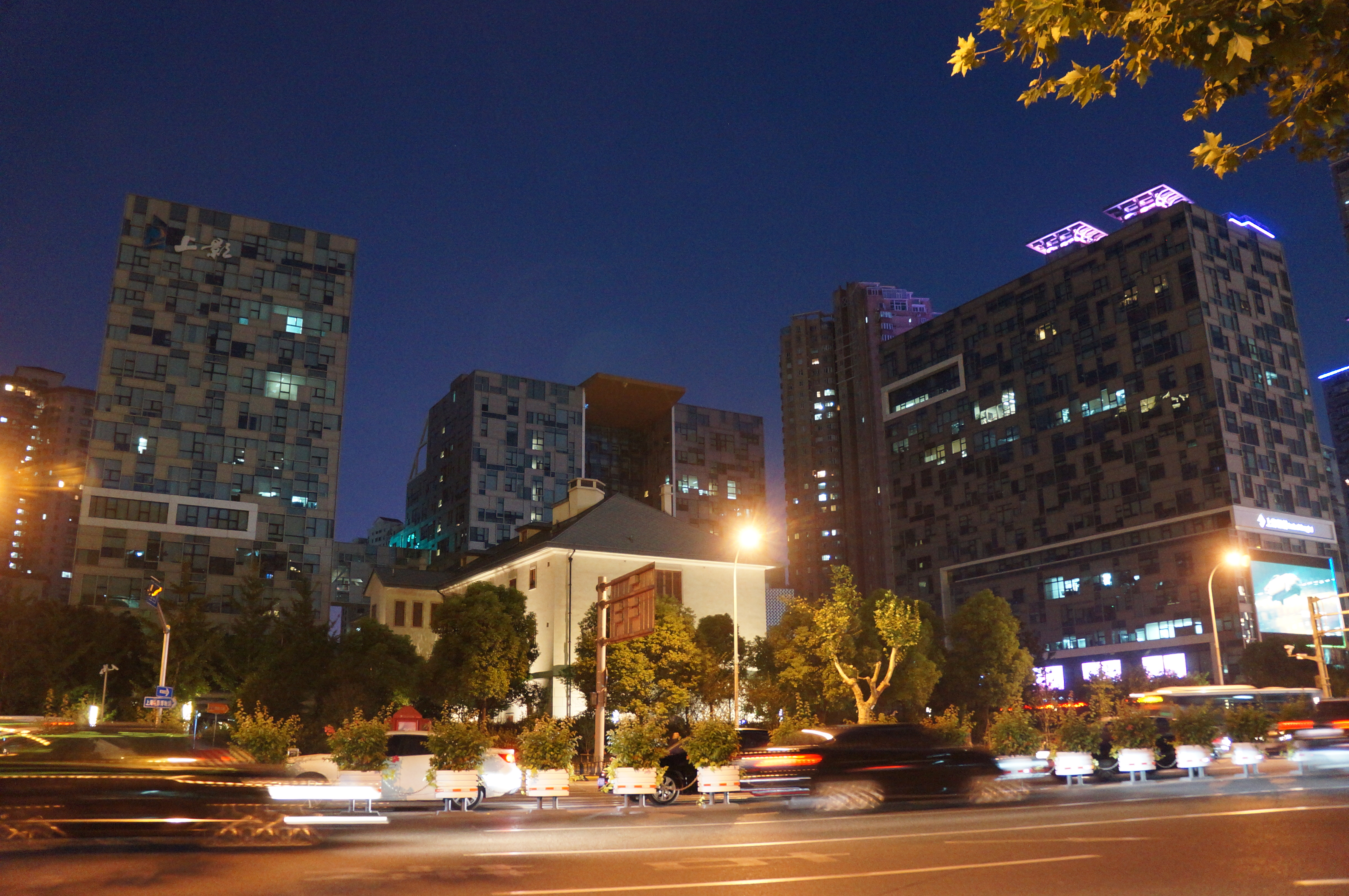 201609 Headquater of Shanghai Film (Group) Corporation